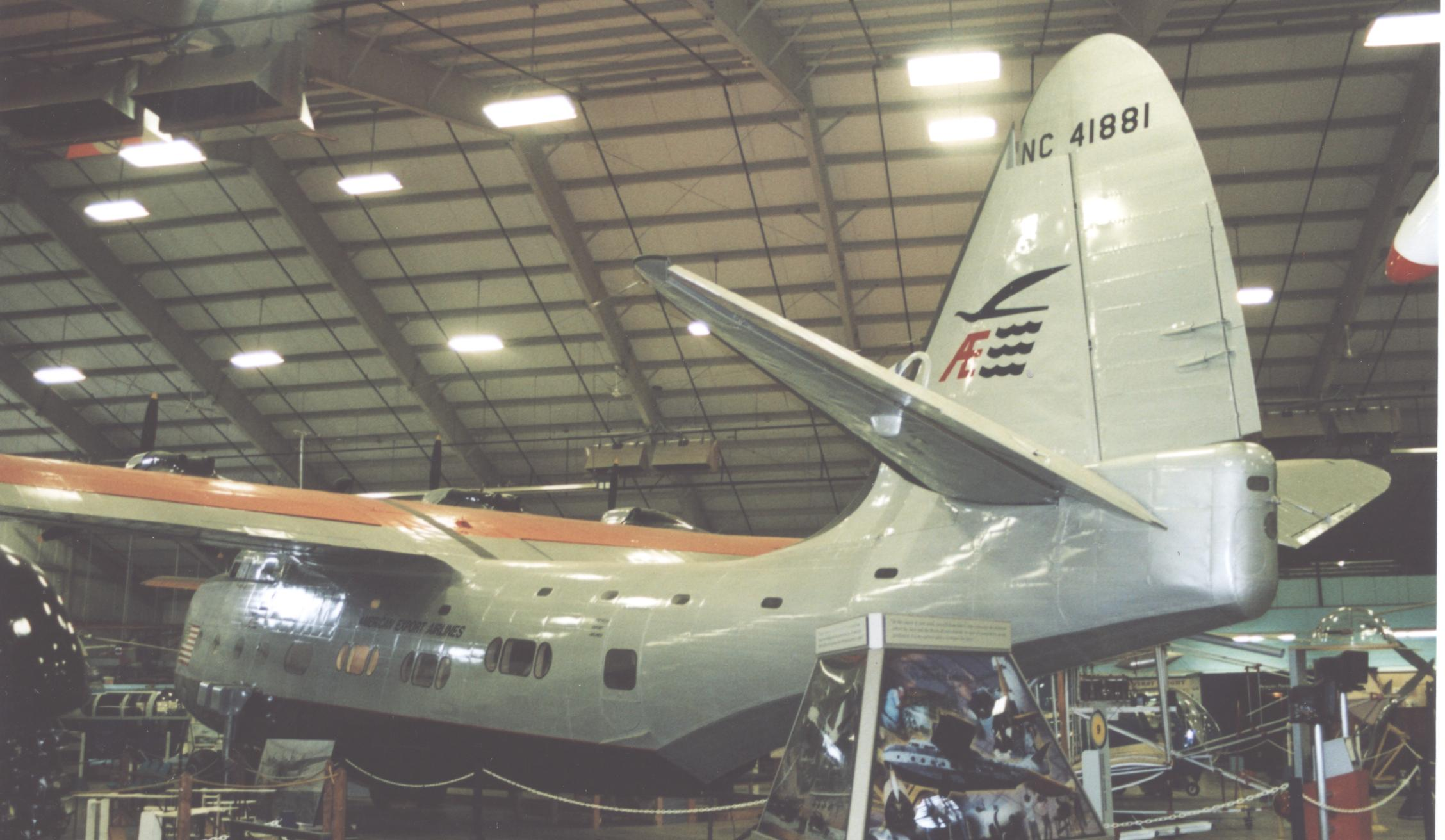 Sikorsky VS-44 flying boat preserved at the New England Air Museum, Windsor Locks, Connecticut